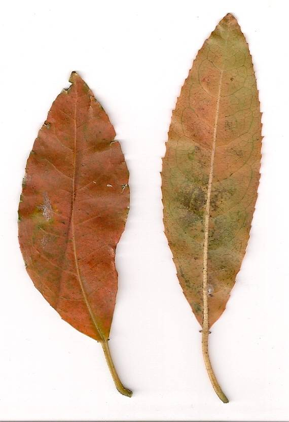 Croton verreauxii senescent leaves, from Brush Farm & Lambert Park, Eastwood